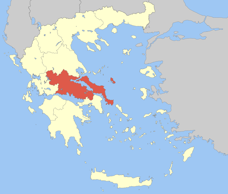 Locator Map of Sterea Ellada Periphery, Greece